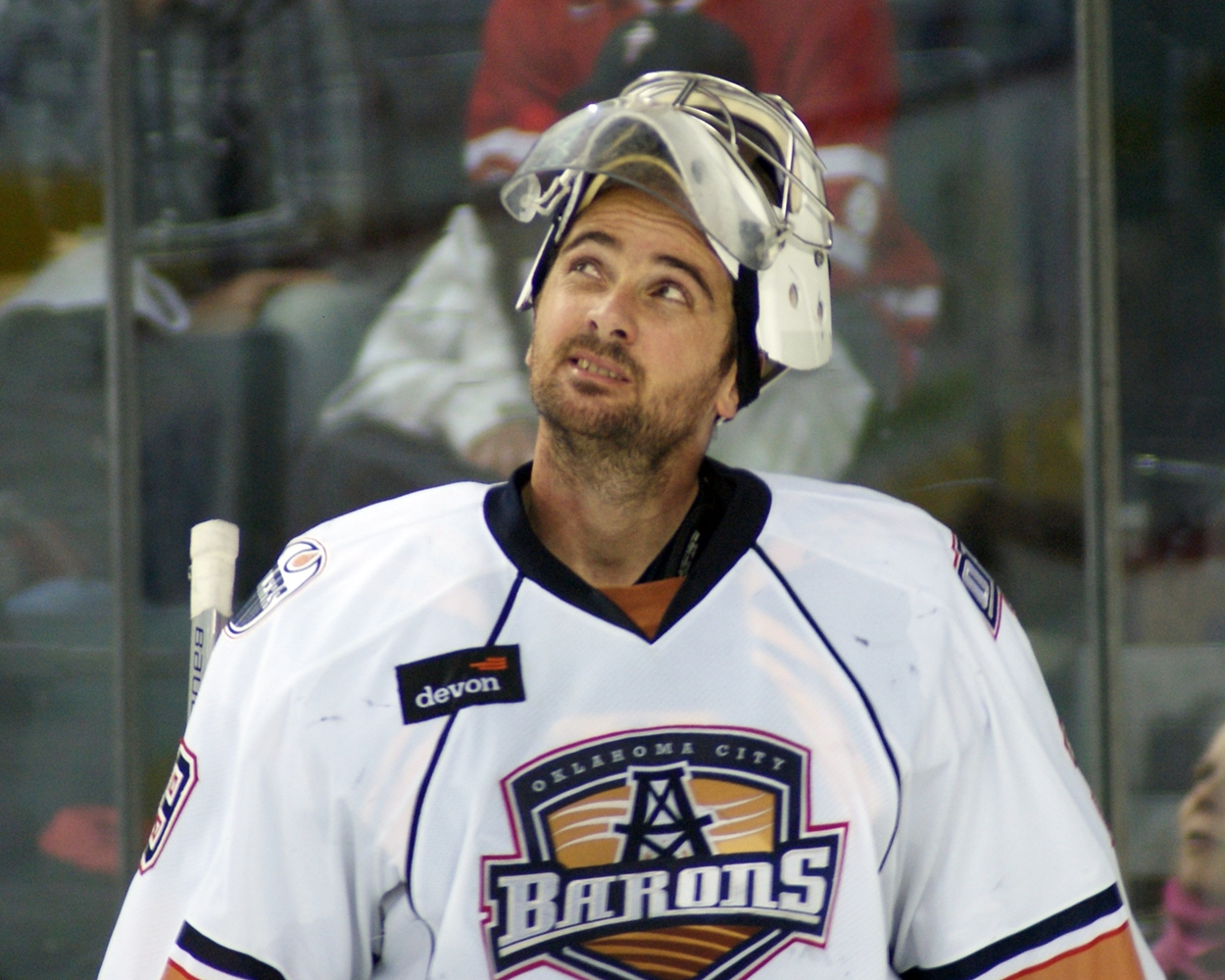 Martin Gerber, born September 3, 1974 in Burgdorf, Switzerland, is a Swiss professional ice hockey goaltender. He was selected by the Anaheim Mighty Ducks in the 8th round, 232nd overall, of the 2001 NHL Entry Draft. He won the Stanley Cup as a member of the 2005–06 Carolina Hurricanes. He has also played in the National Hockey League (NHL) with the Anaheim Mighty Ducks, Ottawa Senators, Toronto Maple Leafs, and Edmonton Oilers. Photo was taken on February 18, 2011 at an American Hockey League (AHL) regular season game.